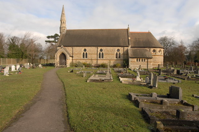 St Mary's Church, Westry The church was destroyed by fire (suspected arson) on 15 March 2010.